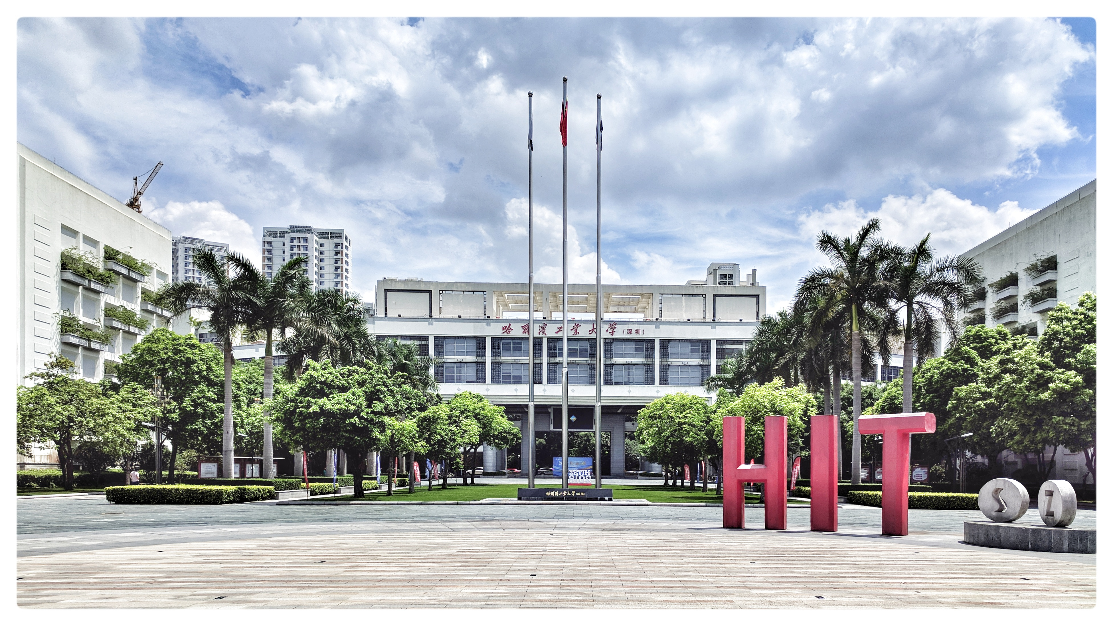 Harbin Institute of Technology (Shenzhen) Old Building (Bachelor)